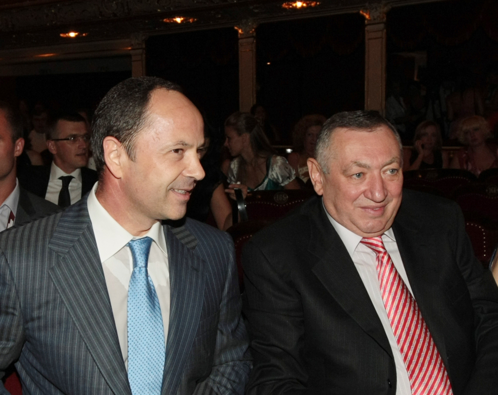 Tigipko and Gurwits